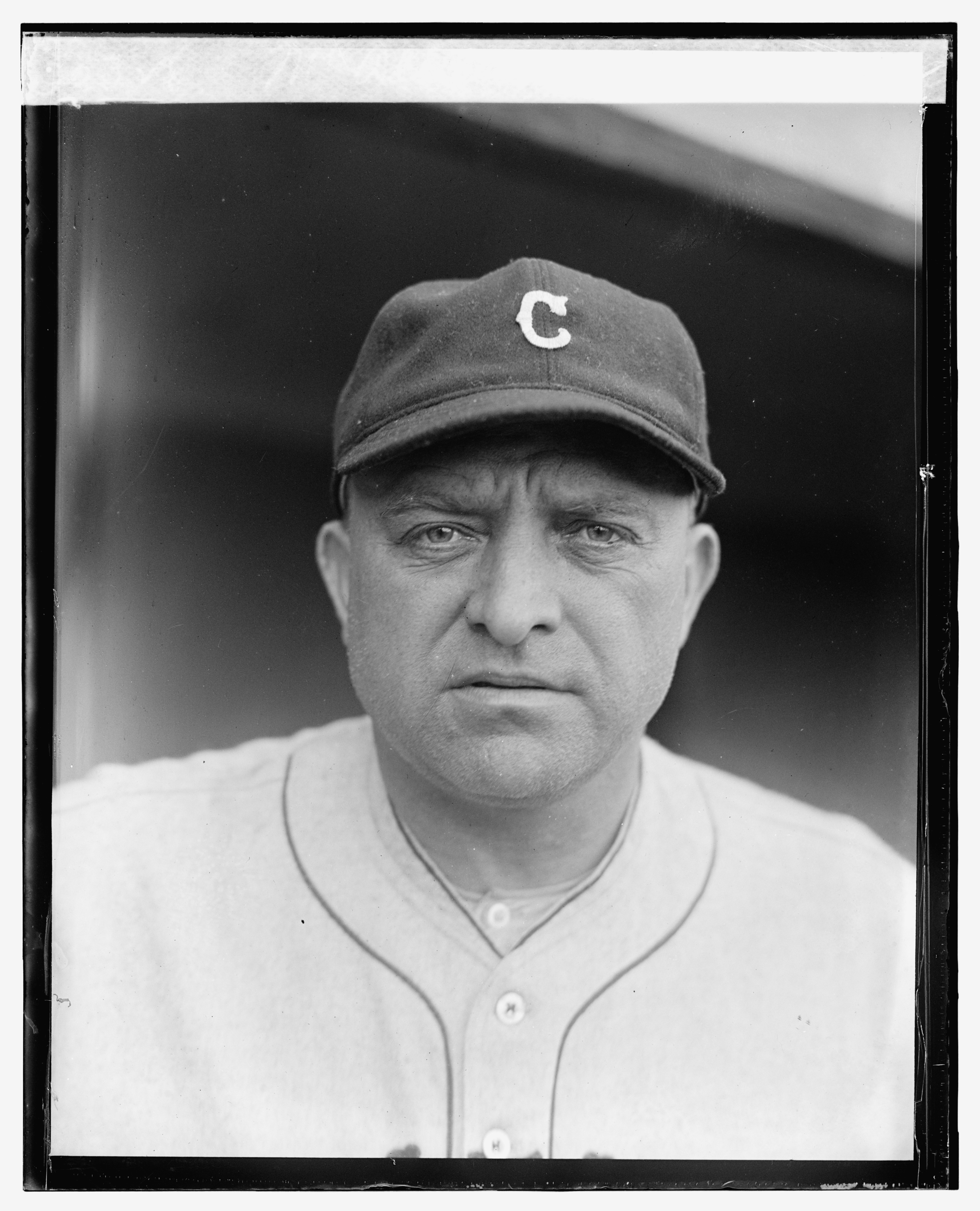 Title: McAllister, Coach, Cleveland, 1924 Abstract/medium: National Photo Company Collection (Library of Congress) Physical description: 1 negative